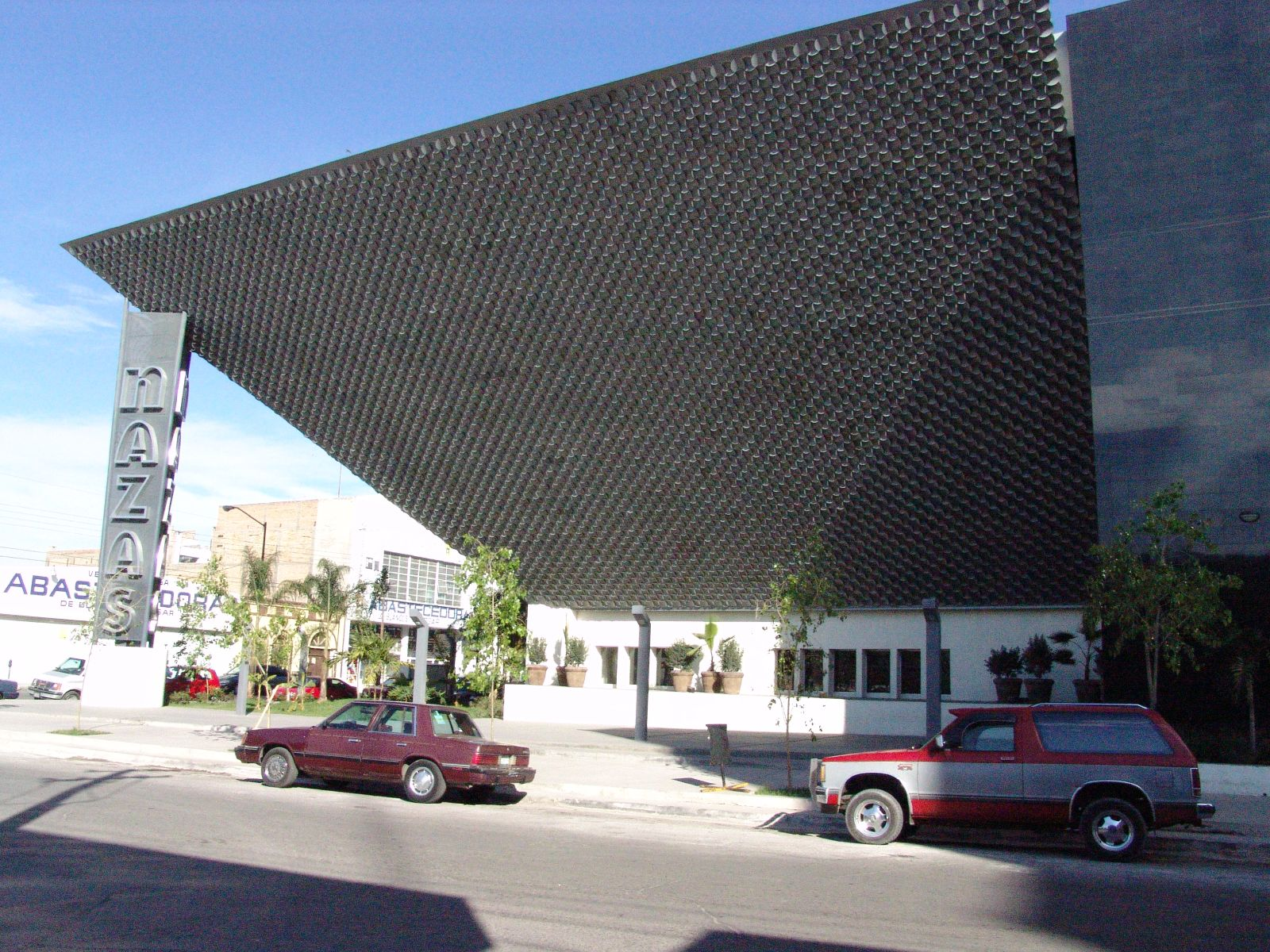 Nazas Theather